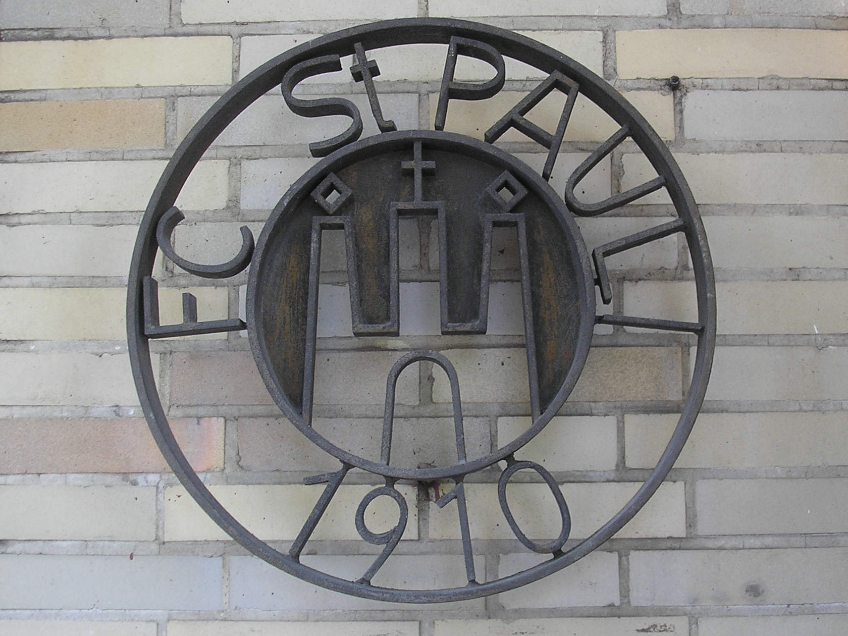 FC St. Pauli, Clubheim, Fanshop etc. Snapshots taken around the Millerntor Stadion, during overhaul/renovation summer 2007.